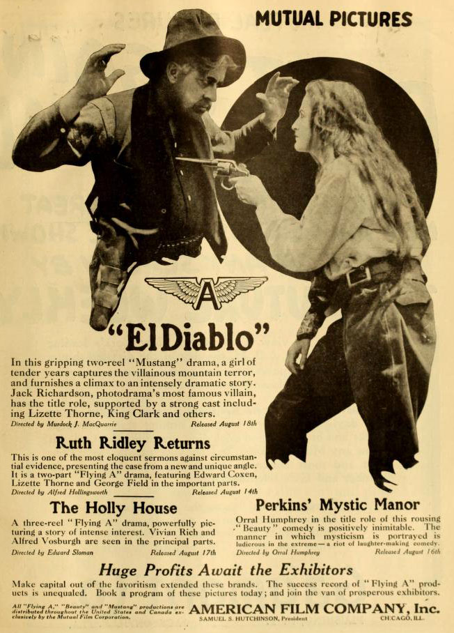 Advertisement in Moving Picture World for the American film El Diablo (1916) with Jack Richardson and Lizette Thorne.